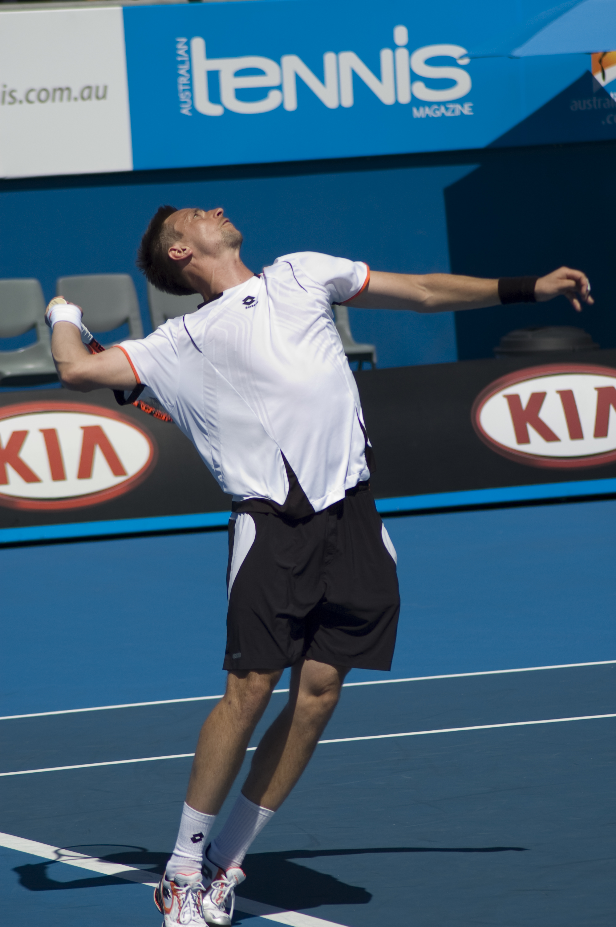 Taken at the Australian Open 2010